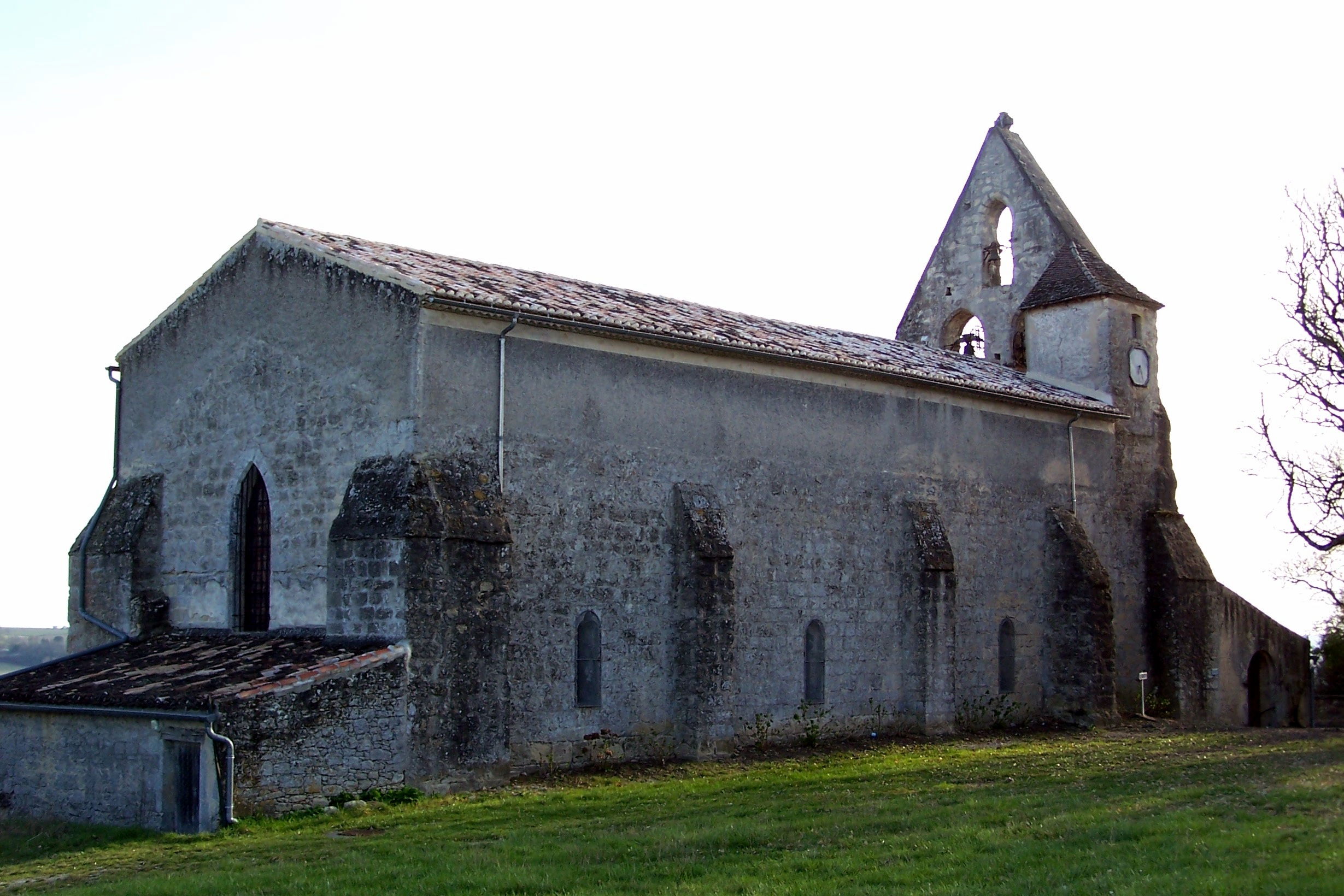 Church Saint-Pierre of Dieulivol (Gironde, France)